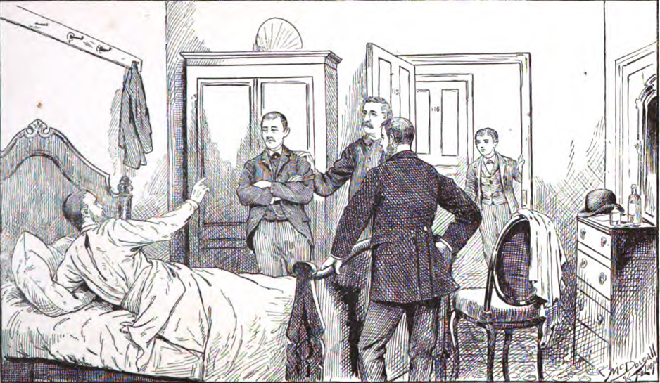 An illustration of Albert D. Richardson identifying Daniel McFarland as his murderer shortly before his death. Police Captain Anthony J. Allaire, who apprehended McFarland, is in the background. Uploaded by request at WP:IFU.